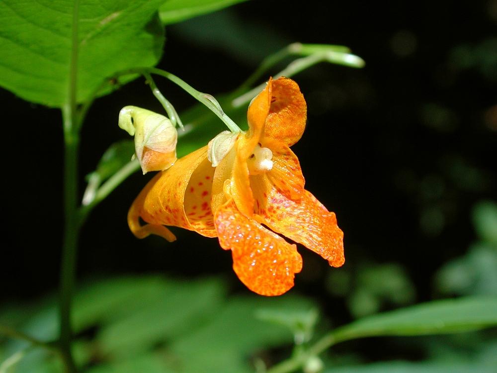 Impatiens capensis, Patapsco National Park, Catonsville, Baltimore, Maryland, USA